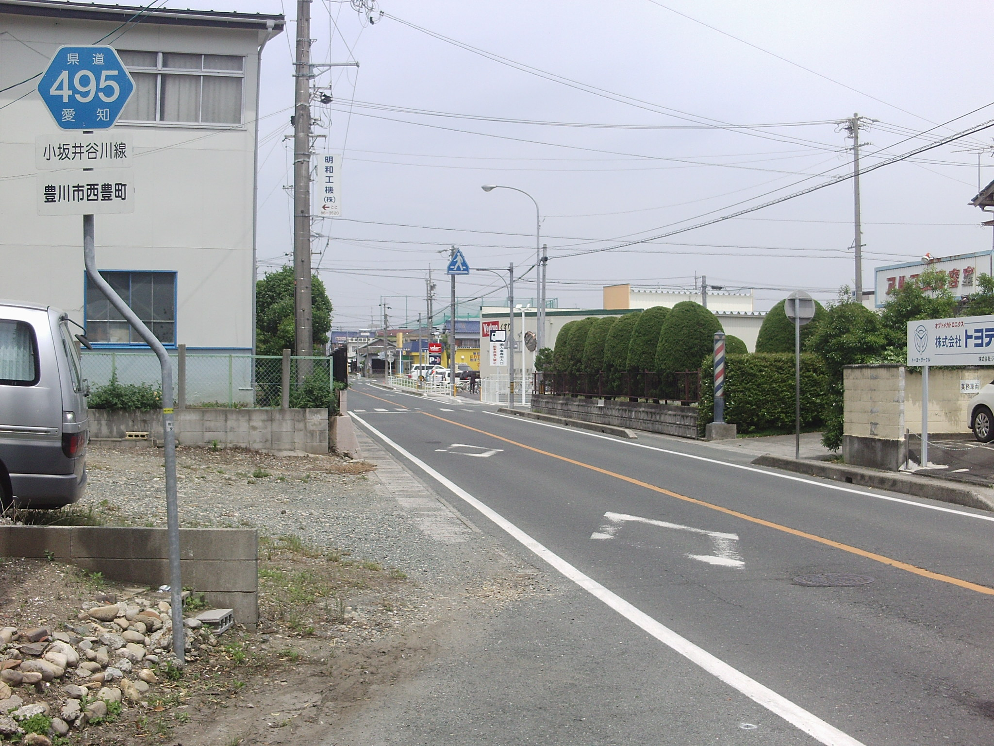 Aichi prefectural road No.495 in Nishiyutakamachi 3-chome, Toyokawa, Aichi.